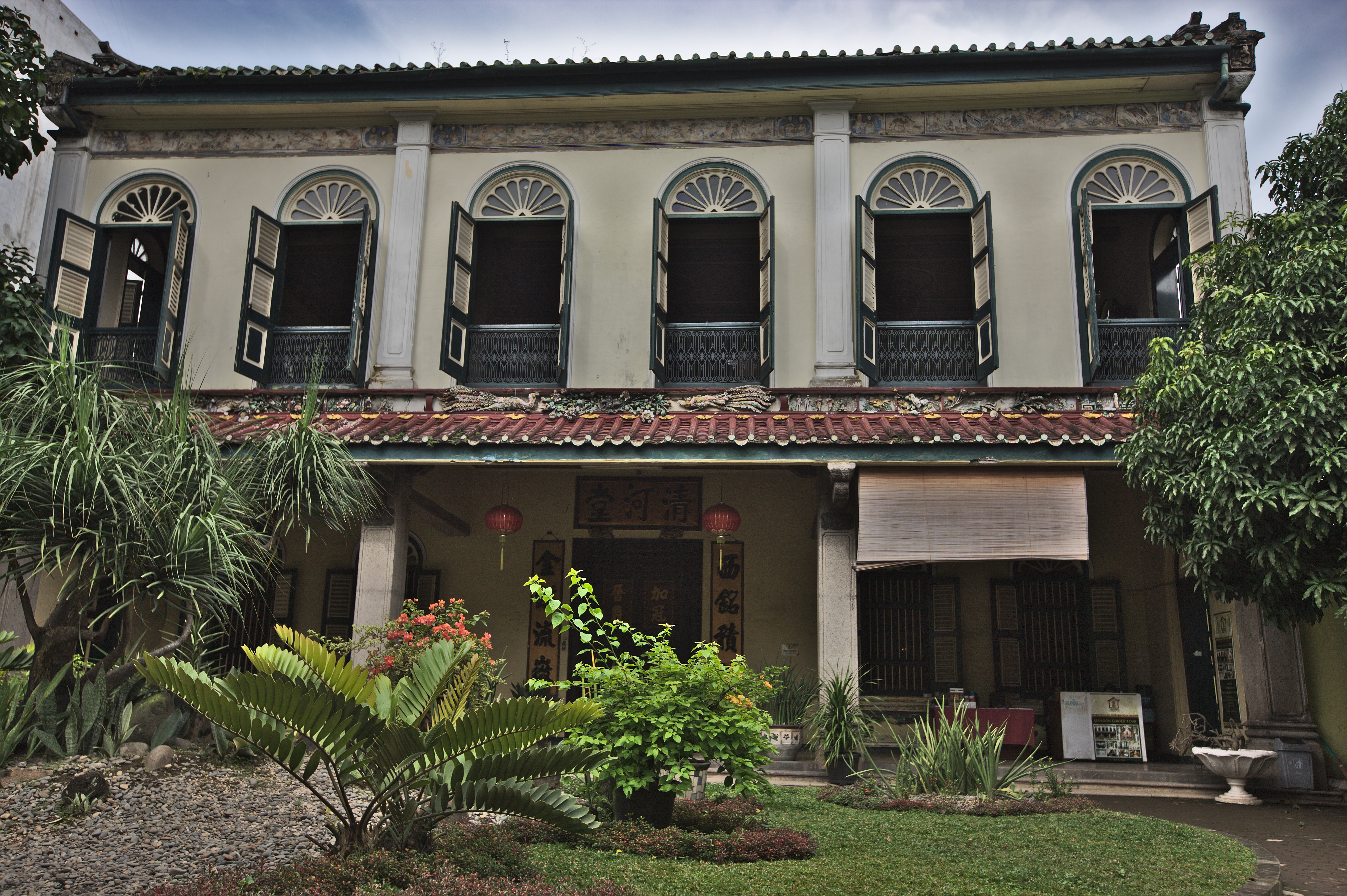 Tjong A Fie Mansion, Jalan A Yani, Medan, North Sumatra, Sumatra, Indonesia.